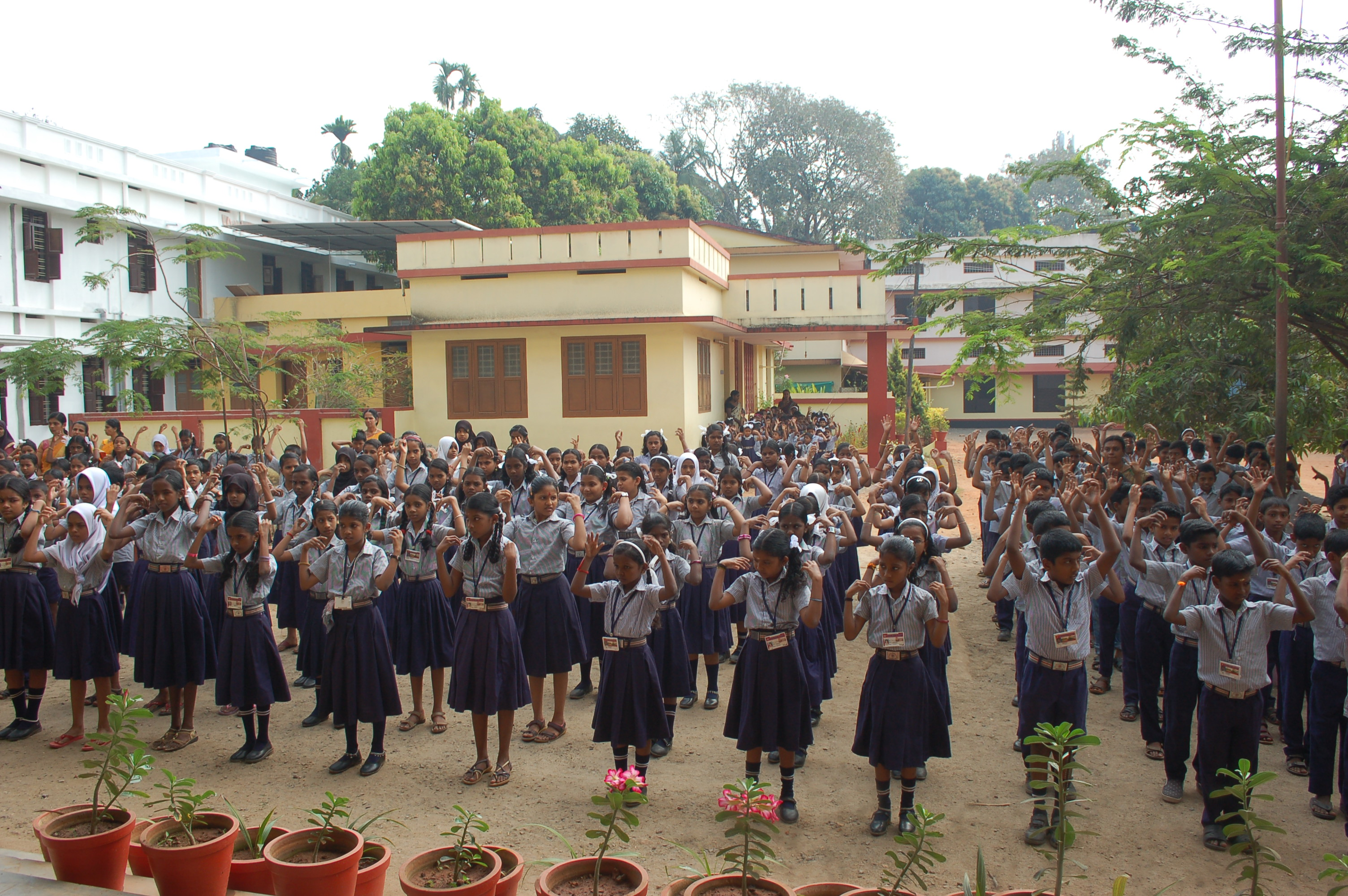 Daily exercise as a part of the school assembly.